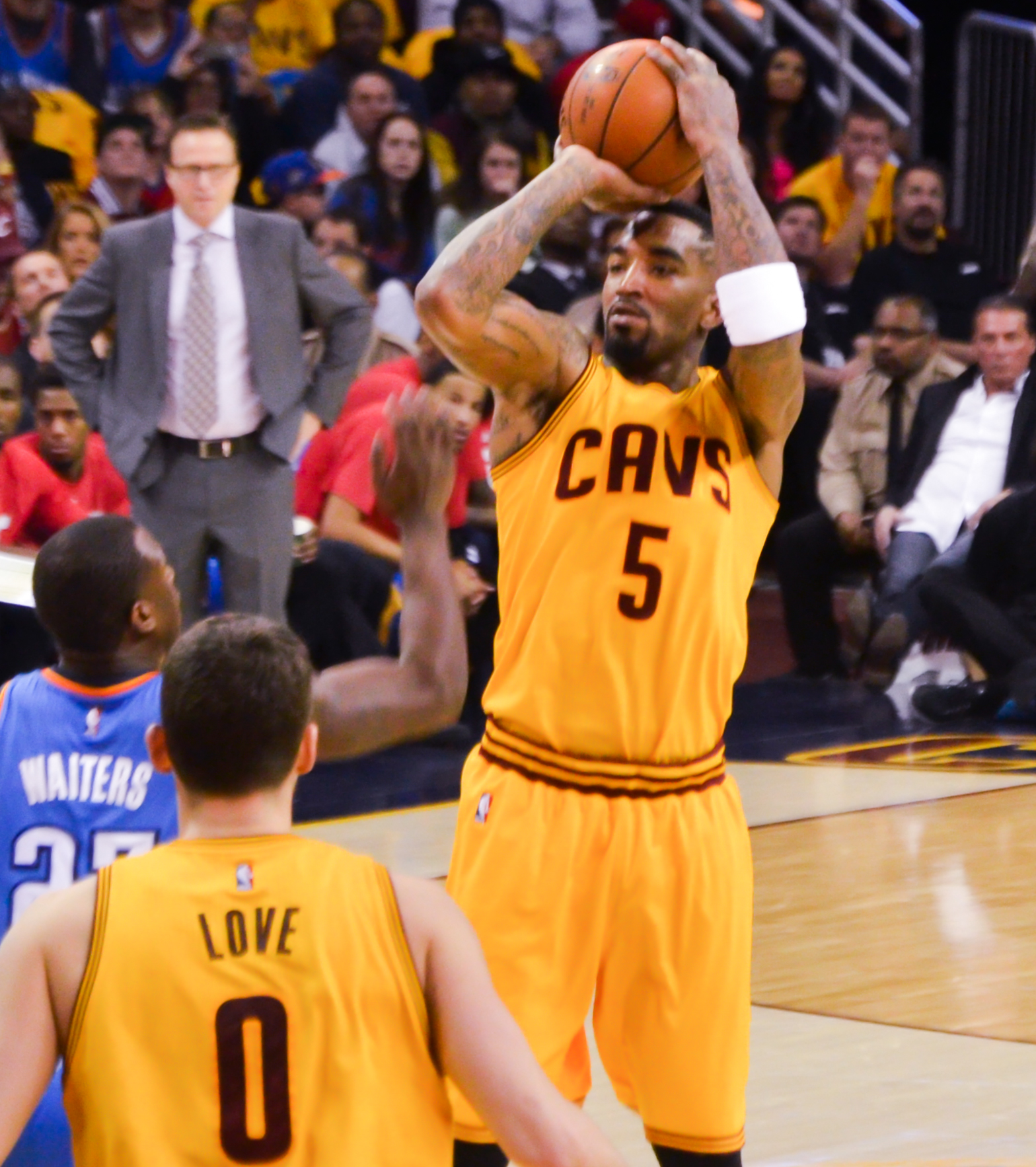 JR Smith playing for Cavs